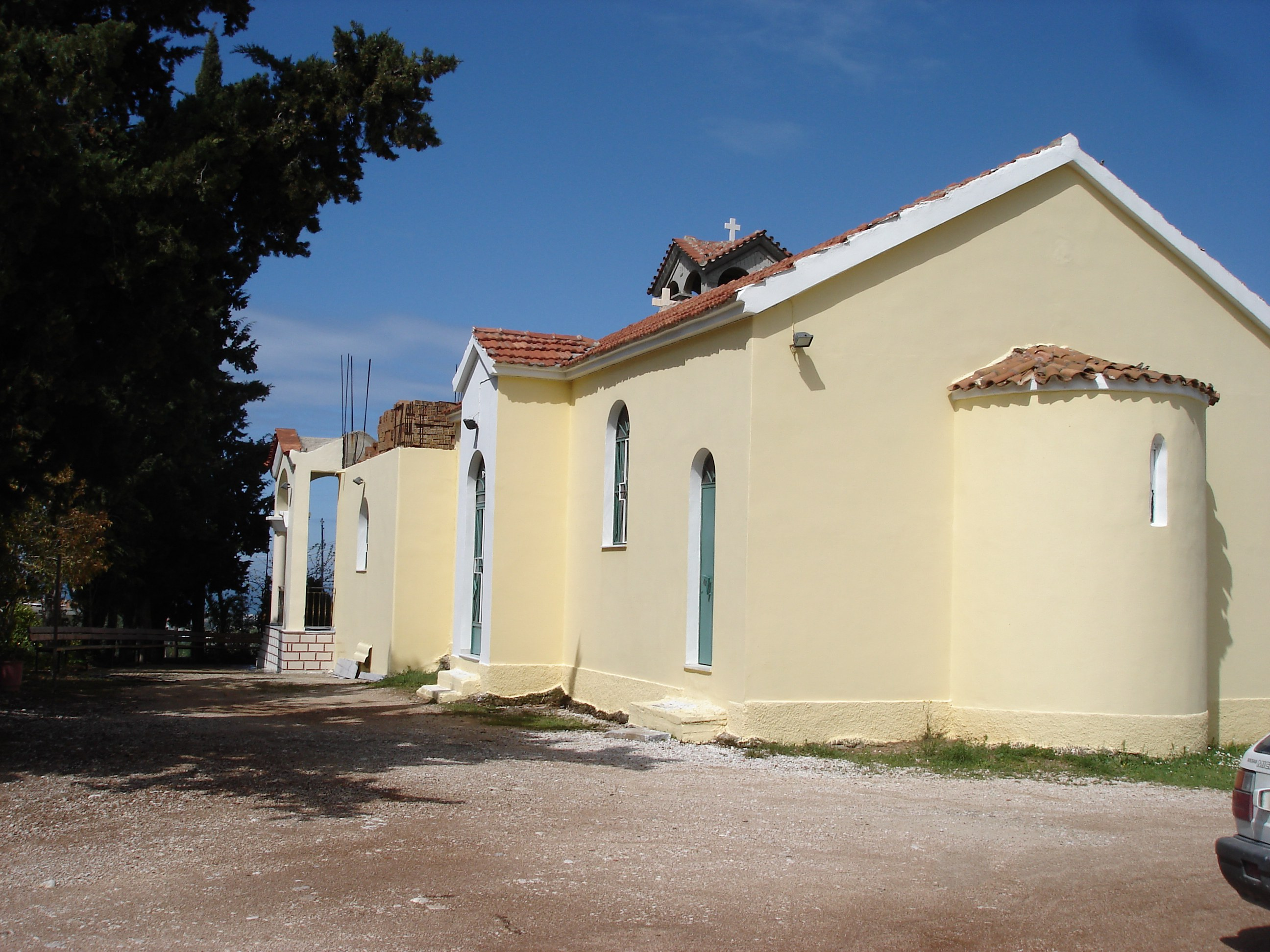 Profitis Ilias ovrya Village Greece